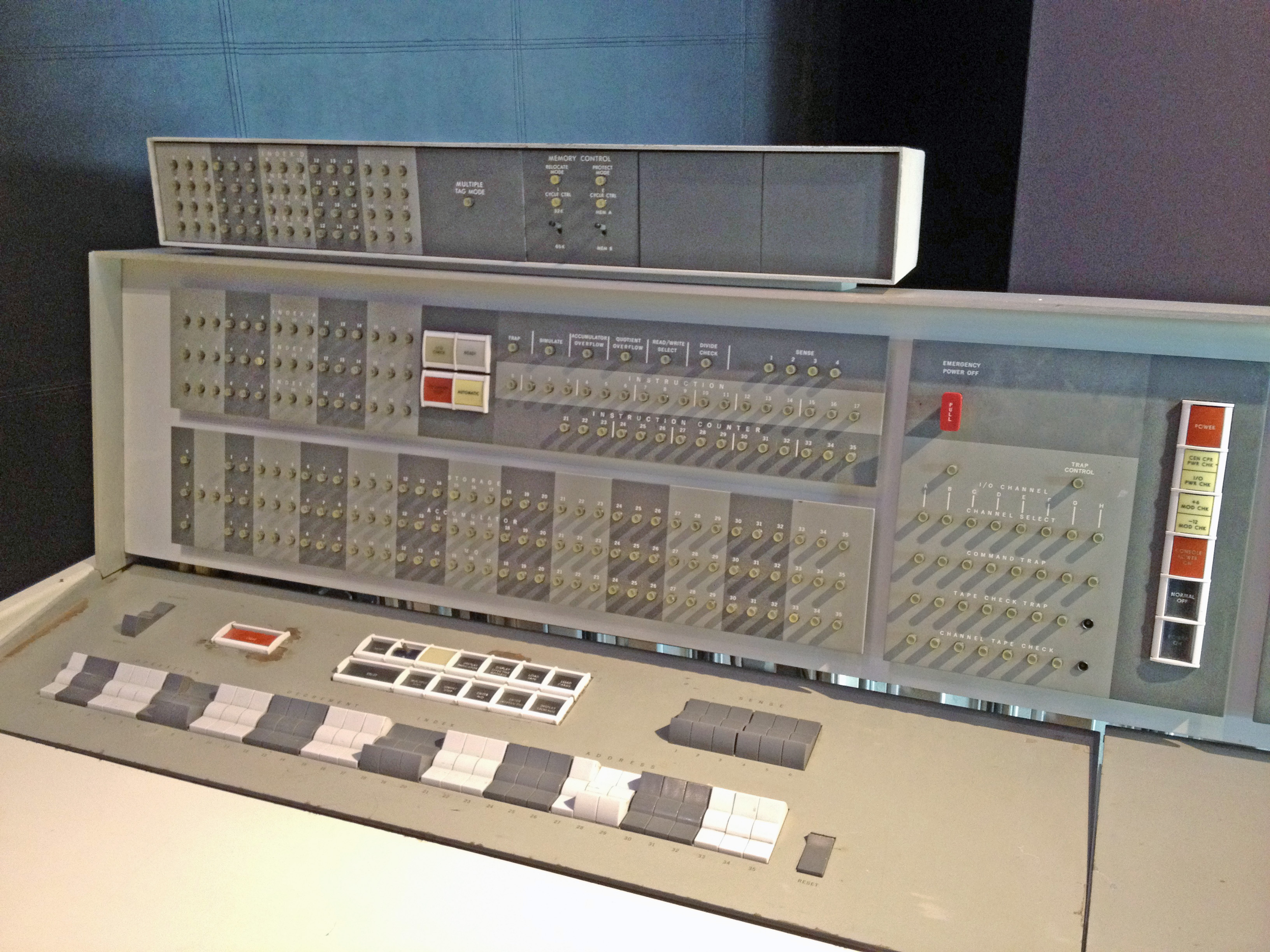 Operator's console for an IBM 7094 at the Computer History Museum